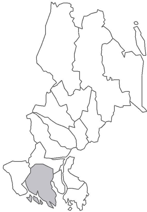 Map decribing the location of Trögd Hundred in Uppsala County, sweden.